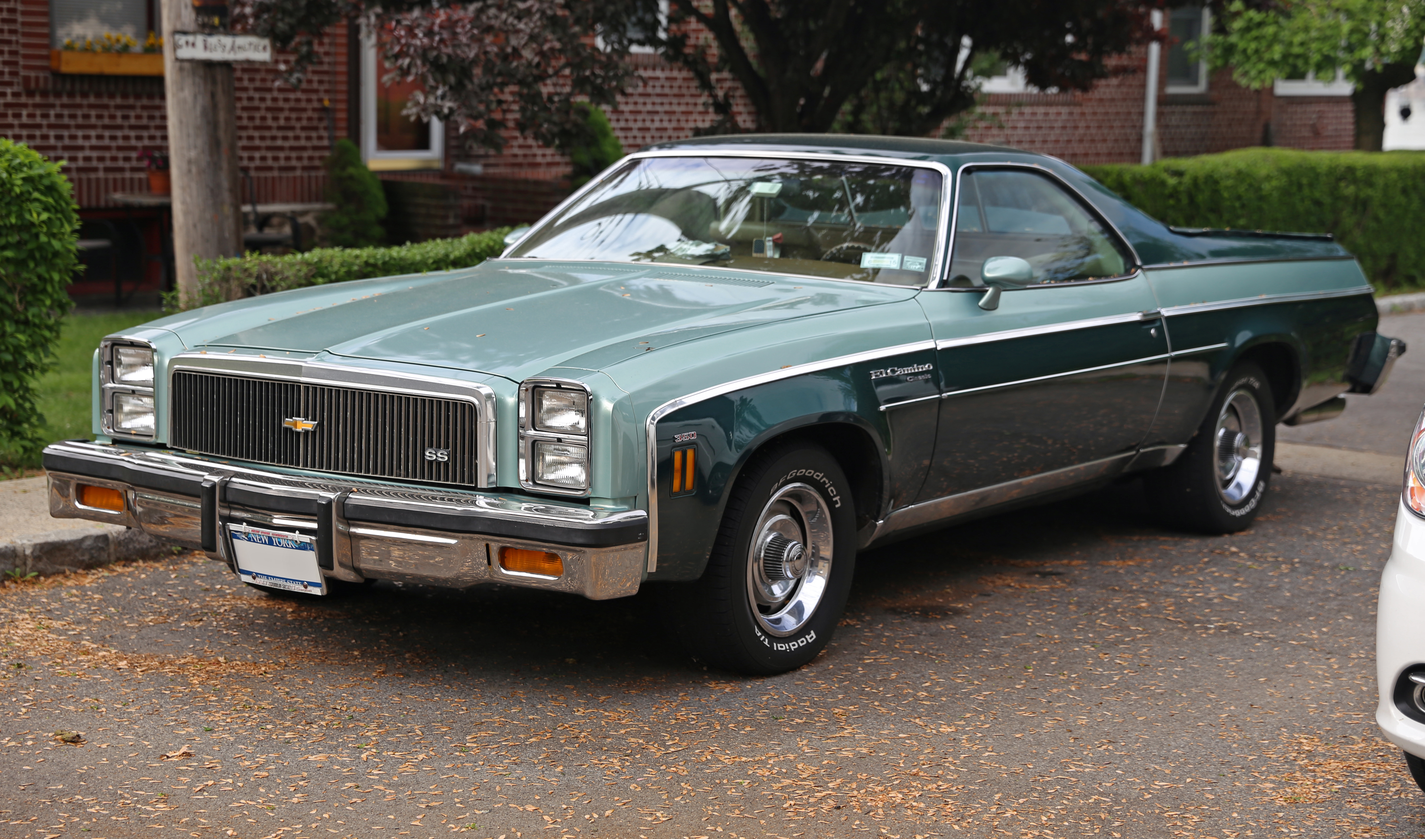 In a strange part of the Bronx. This lovely two-tone green El Camino was assembled in Fremont, CA, and has the usual 170hp 4-barrel 350ci V8 small block. Great shape, a joy to encounter.